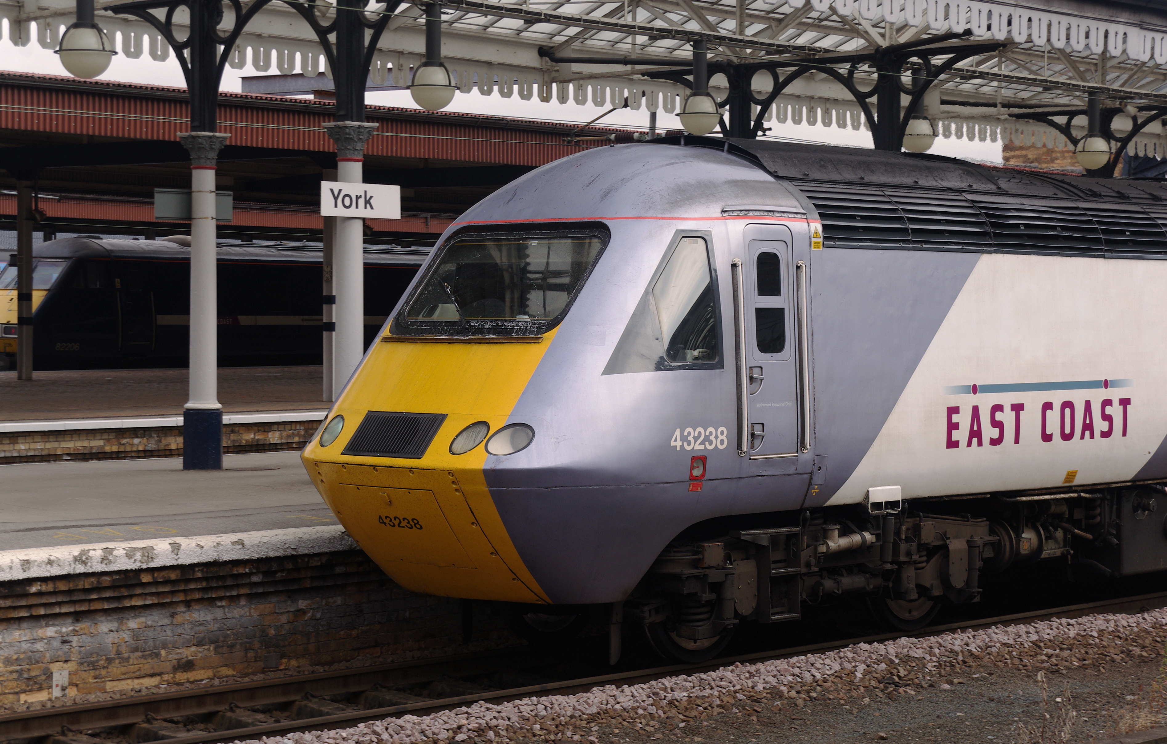 An East Coast HST headed by 43238 stands at York with a southbound service.